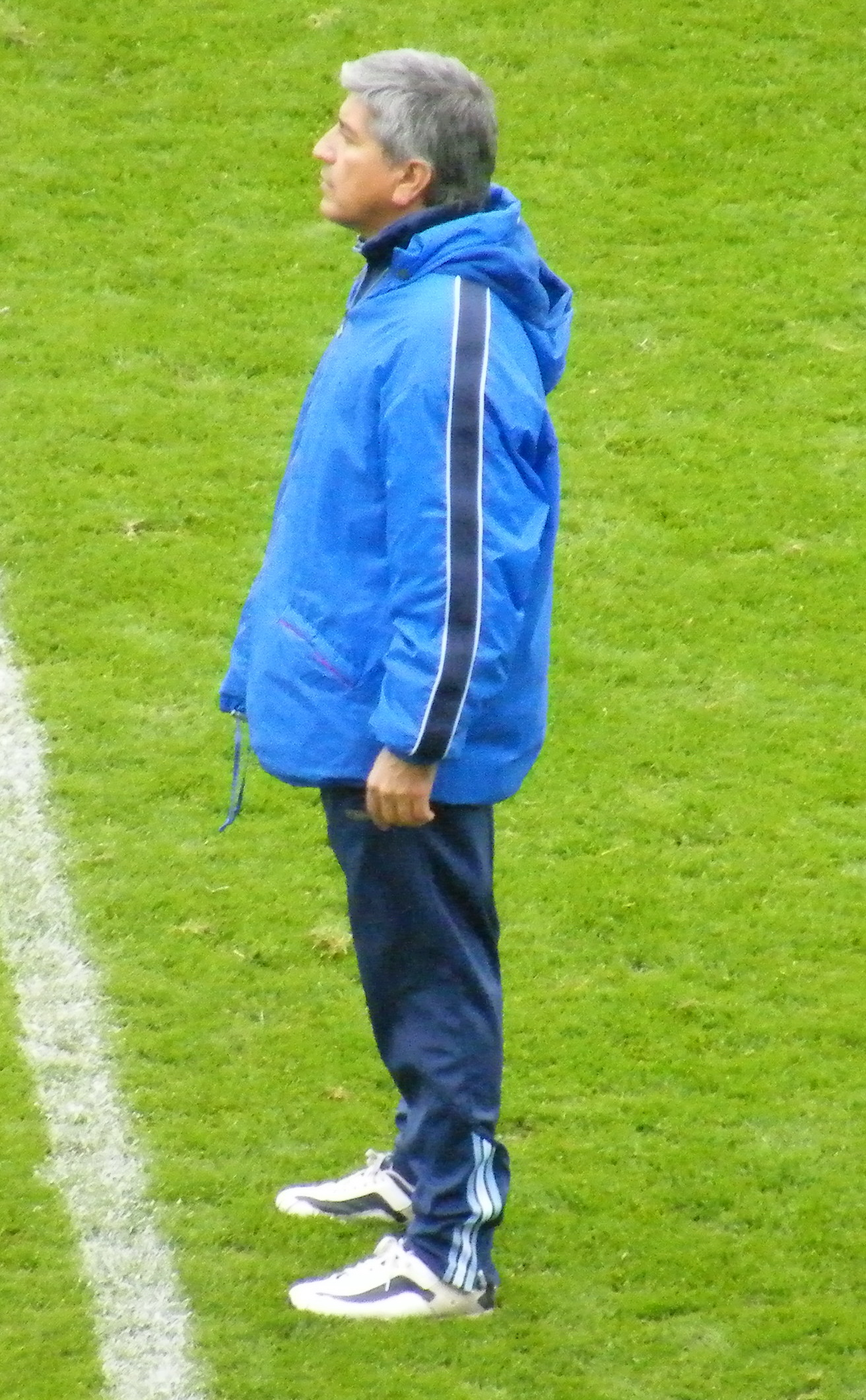 Octavio Zambrano Ecuadorian football coach